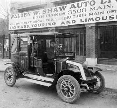 1910 Croxton-Keeton cab for the Walden W Shaw Auto Livery Co., Chicago, Ill. (1907-1919) Early cabs of this manufacturer used a 38 hp 4 cylinder engine in a sturdy 115.5 in chassis. They offered cars with conventioonal or "shovel" type hood, the ladder called "French style". Like Renault, they fitted the radiator behind the engine. The cars were designed by Forst M. Keeton, and at least the cab bodies were manufactured by Acme Veneer and Body Co. of Rahway, NJ. Walden W Shaw Livery Co. is a predecessor of the Hertz organisation.